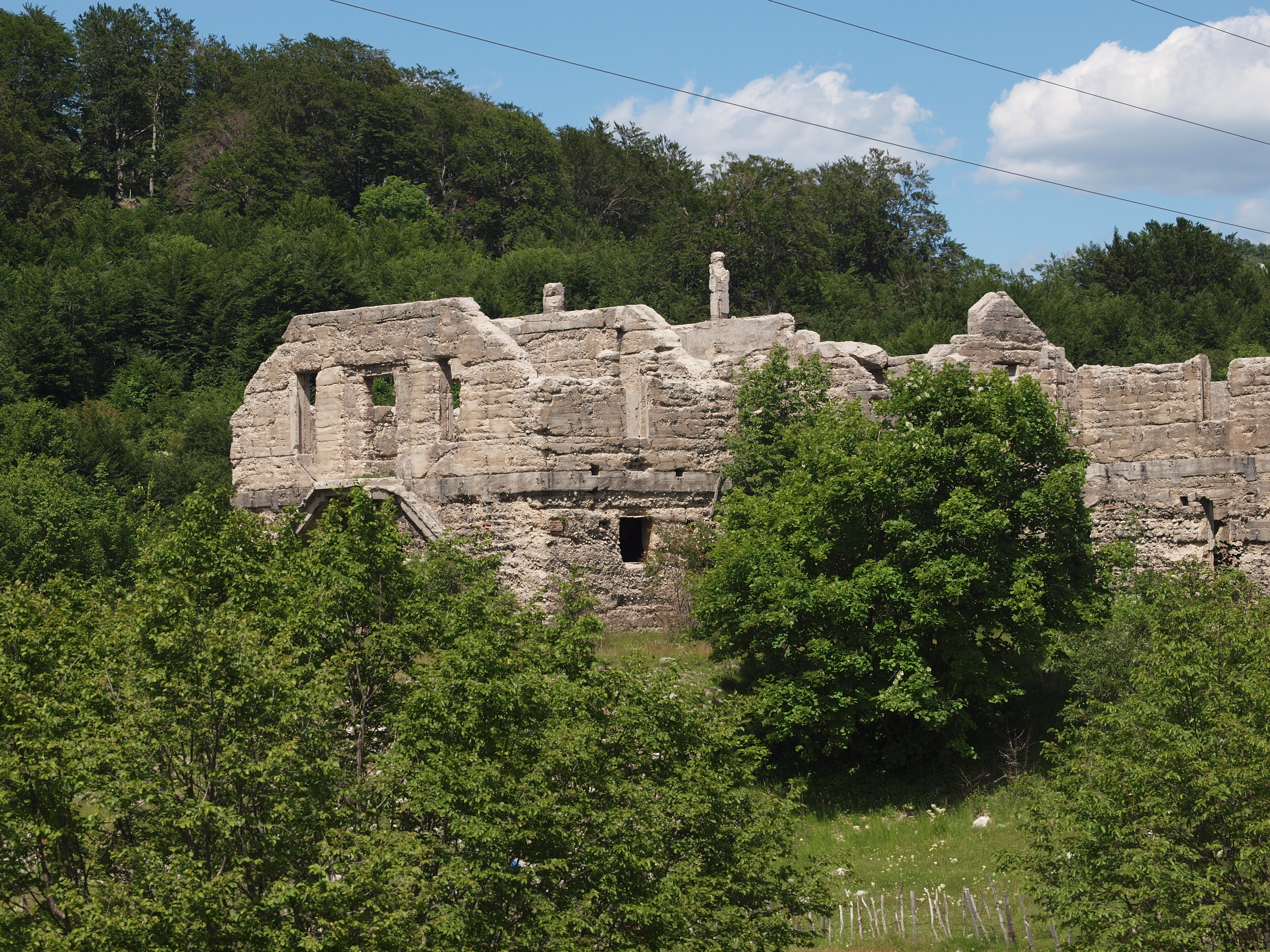 Oly Austrian-Hungarian envorcement, Crkvice, Krivosive Montenegro